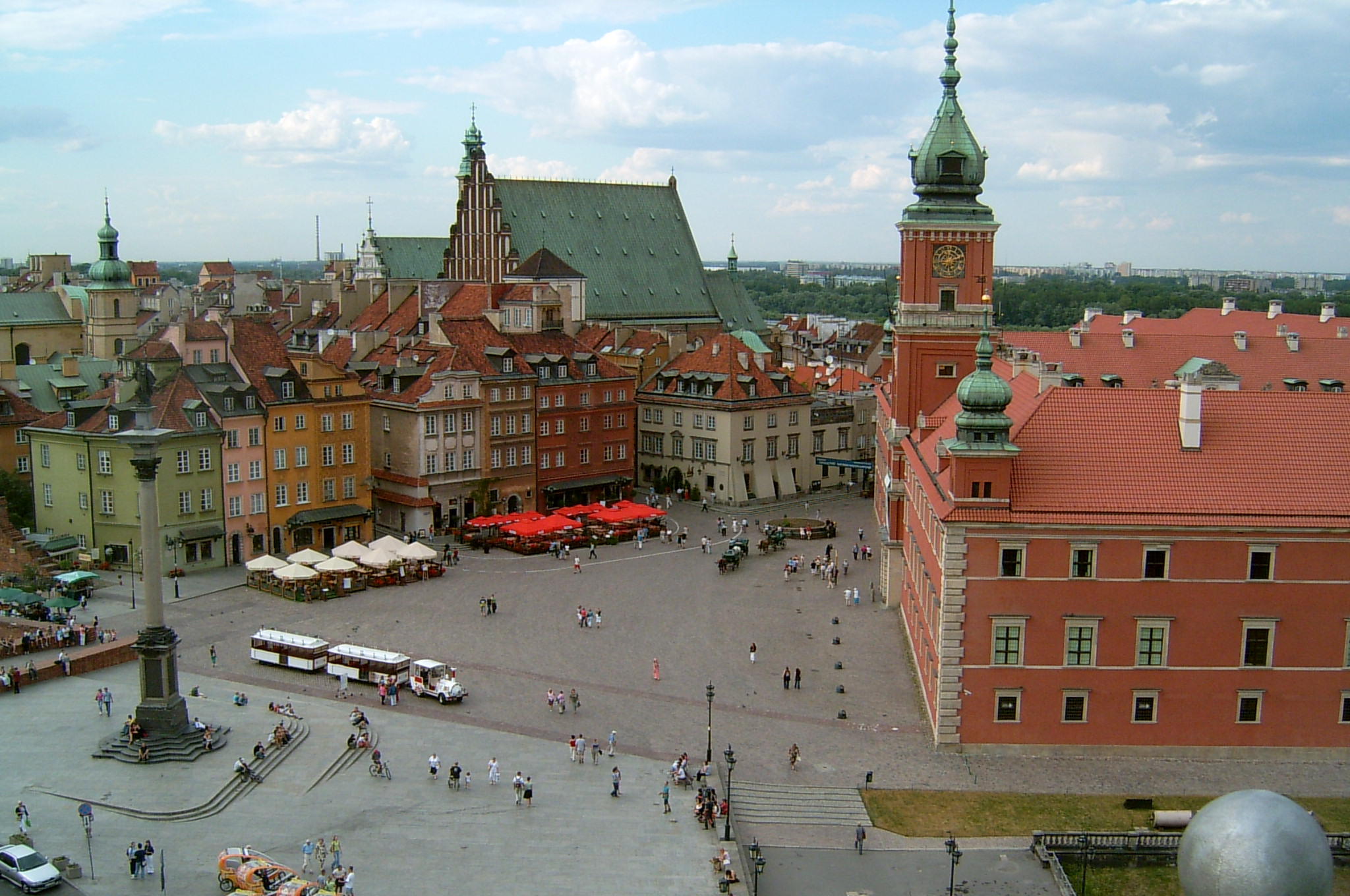 Warsaw – Royal Castle Square